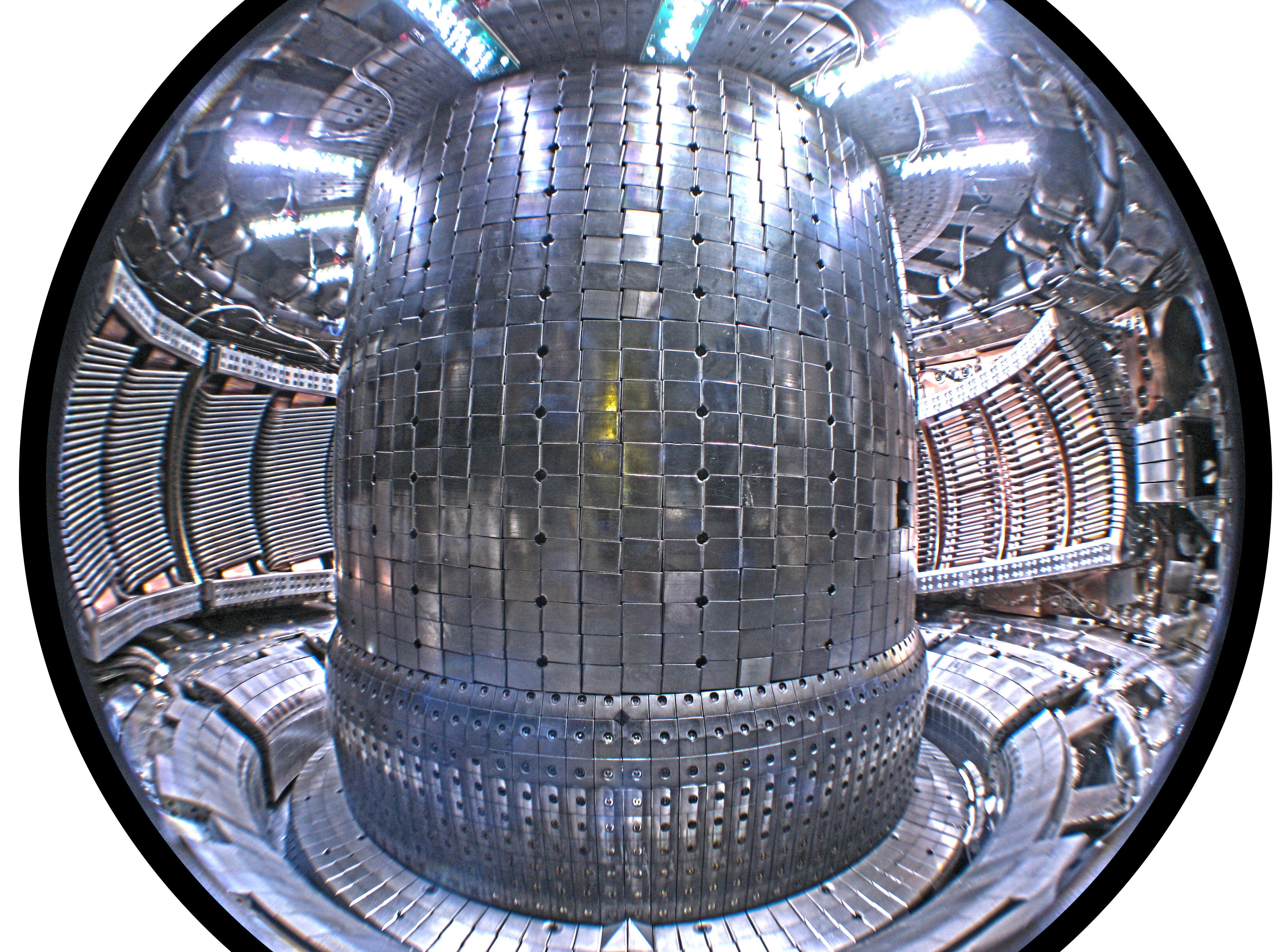 Interior of the Alcator C-Mod tokamak at the MIT Plasma Science and Fusion Center. Two Ion Cyclotron Range of Frequencies (ICRF) antennas are visible to the left of the central column. A new magnetic field-aligned ICRF antenna is visible to the right of the central column.